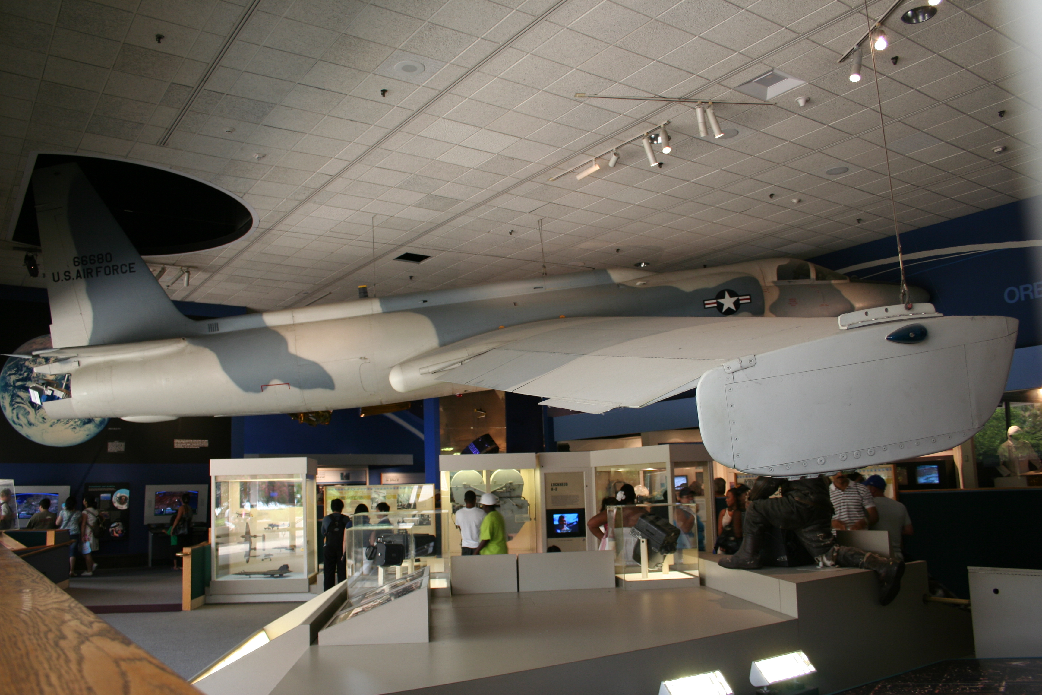 Right side of U2 on display.